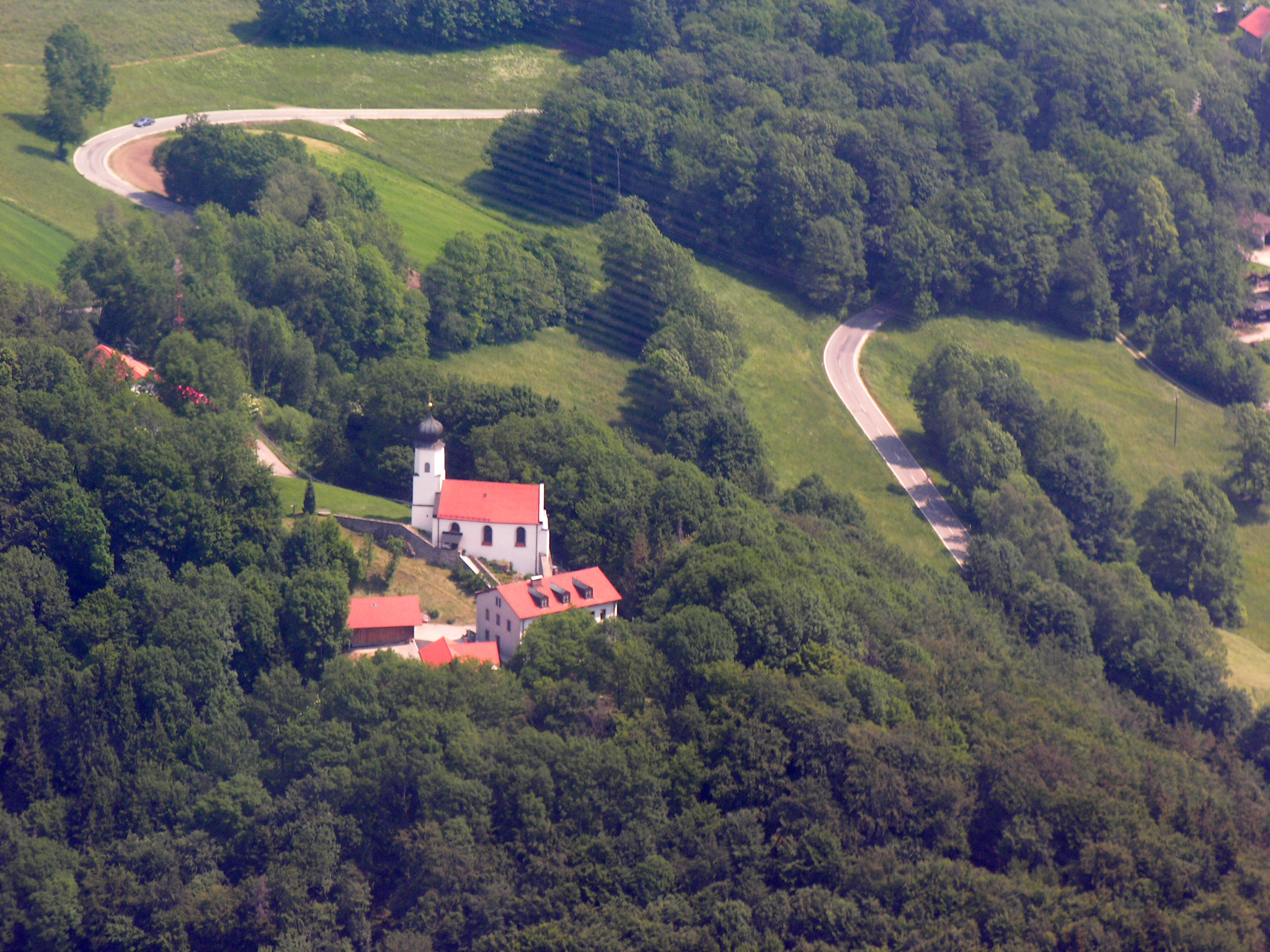 Germany, Bavaria, Ulrichsberg